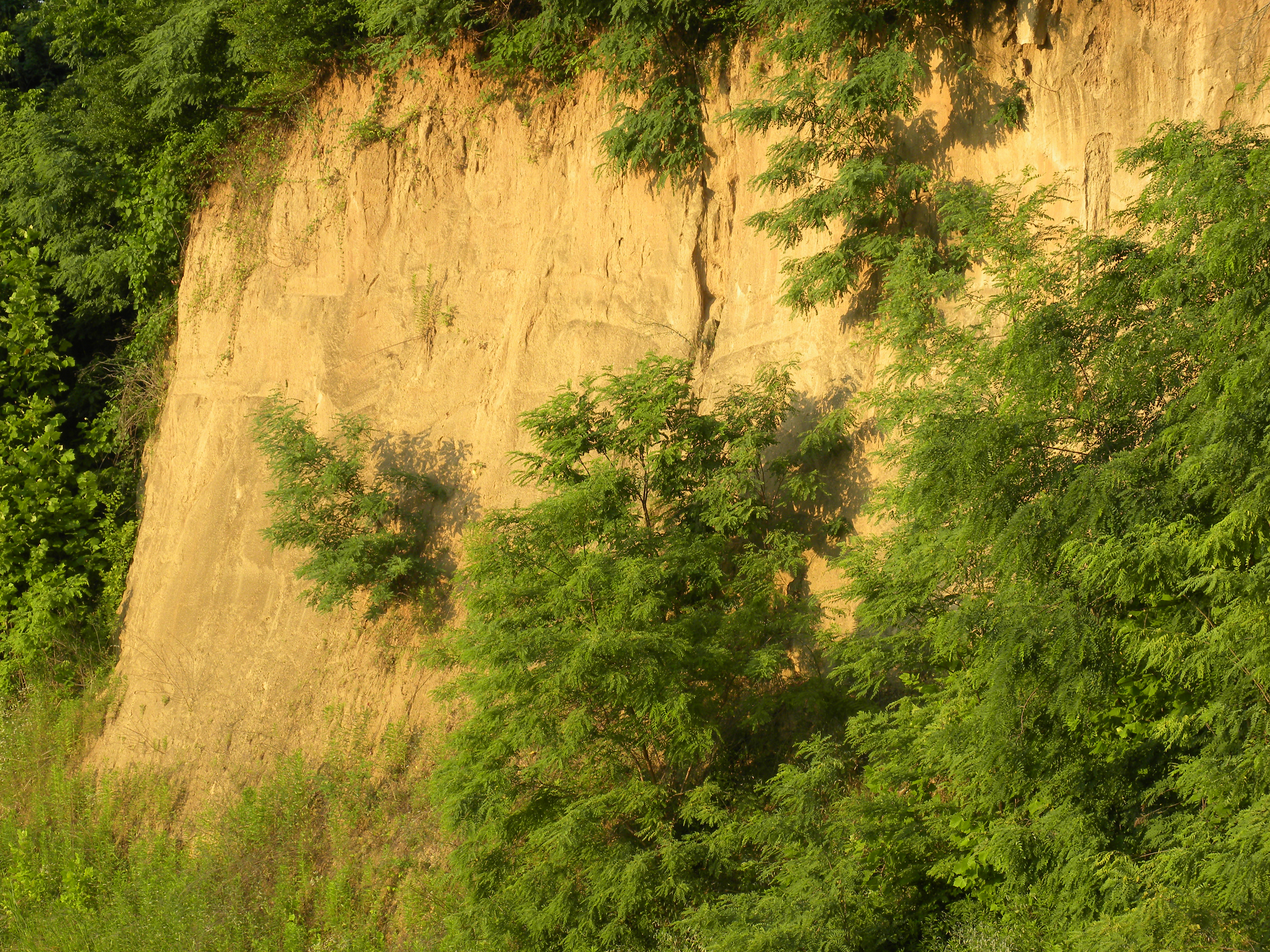 Loess deposit exposed in a bluff (Vicksburg, Mississippi).